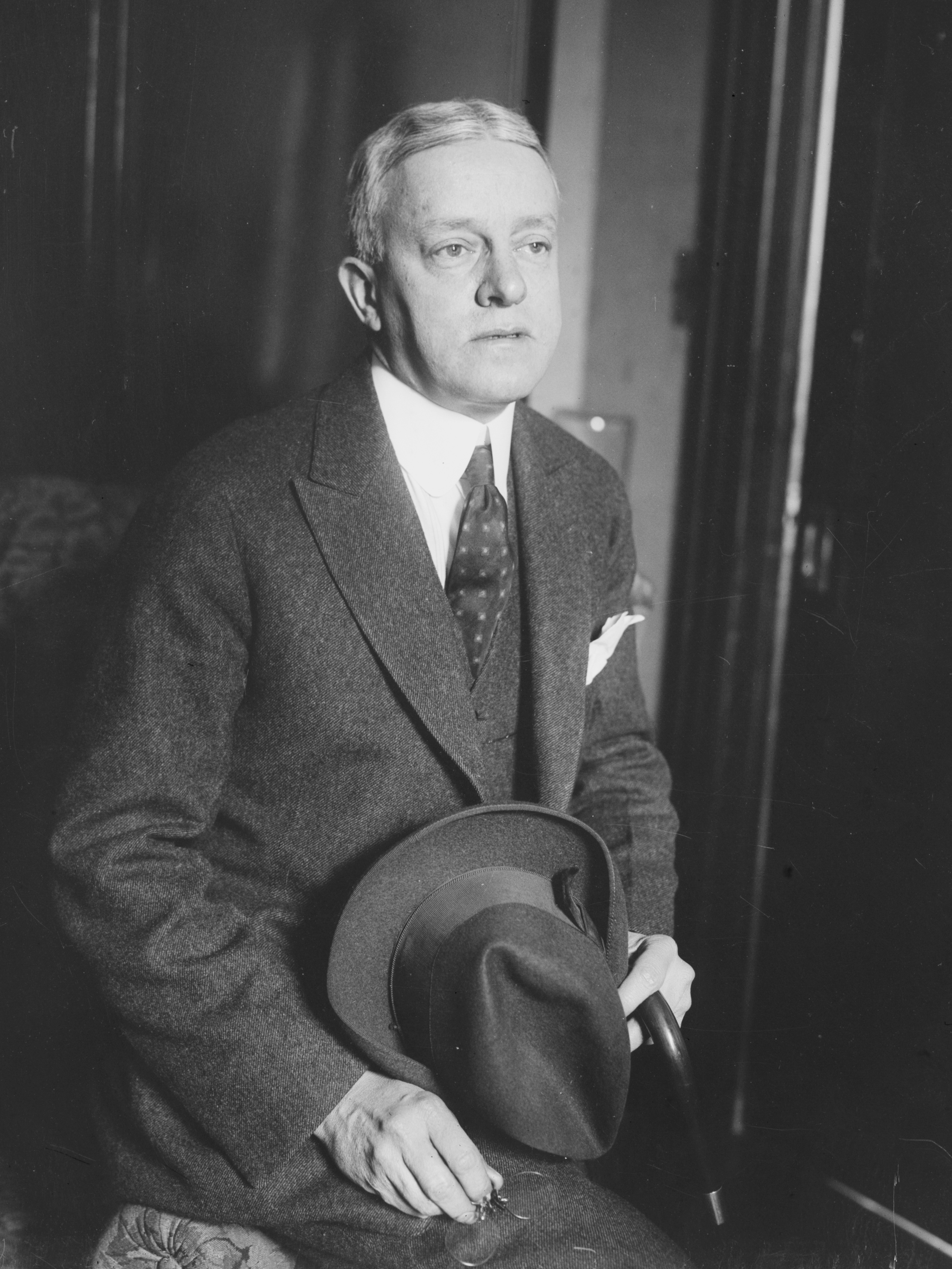 Edward Ziegler, American music critic and opera director.